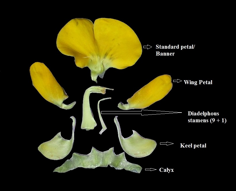 This is the dissected flower of Sesbania bispinosa, showing papilonaceous corolla